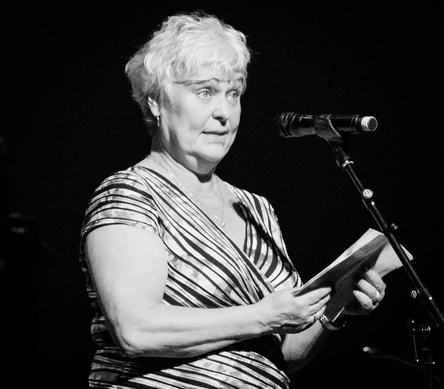 Ellen Horn at the opening concert of the 2017 Oslo Jazzfestival. The event took place at the main stage in Oslo Opera House on 12. August 2017. Lineup: H.M. Queen Sonja (opening remarks), Manu Katché (drums), Tore Brunborg (saxophone), Ellen Andrea Wang (double bass), Mathias Eick (trumpet), Bugge Wesseltoft (piano), Trygve Seim (saxophone), Jacob Young (guitar), Petter Wettre (saxophone), Edvard Askeland (introduction), Ellen Horn (introduction) and Bjørn Stendahl (award recipient).